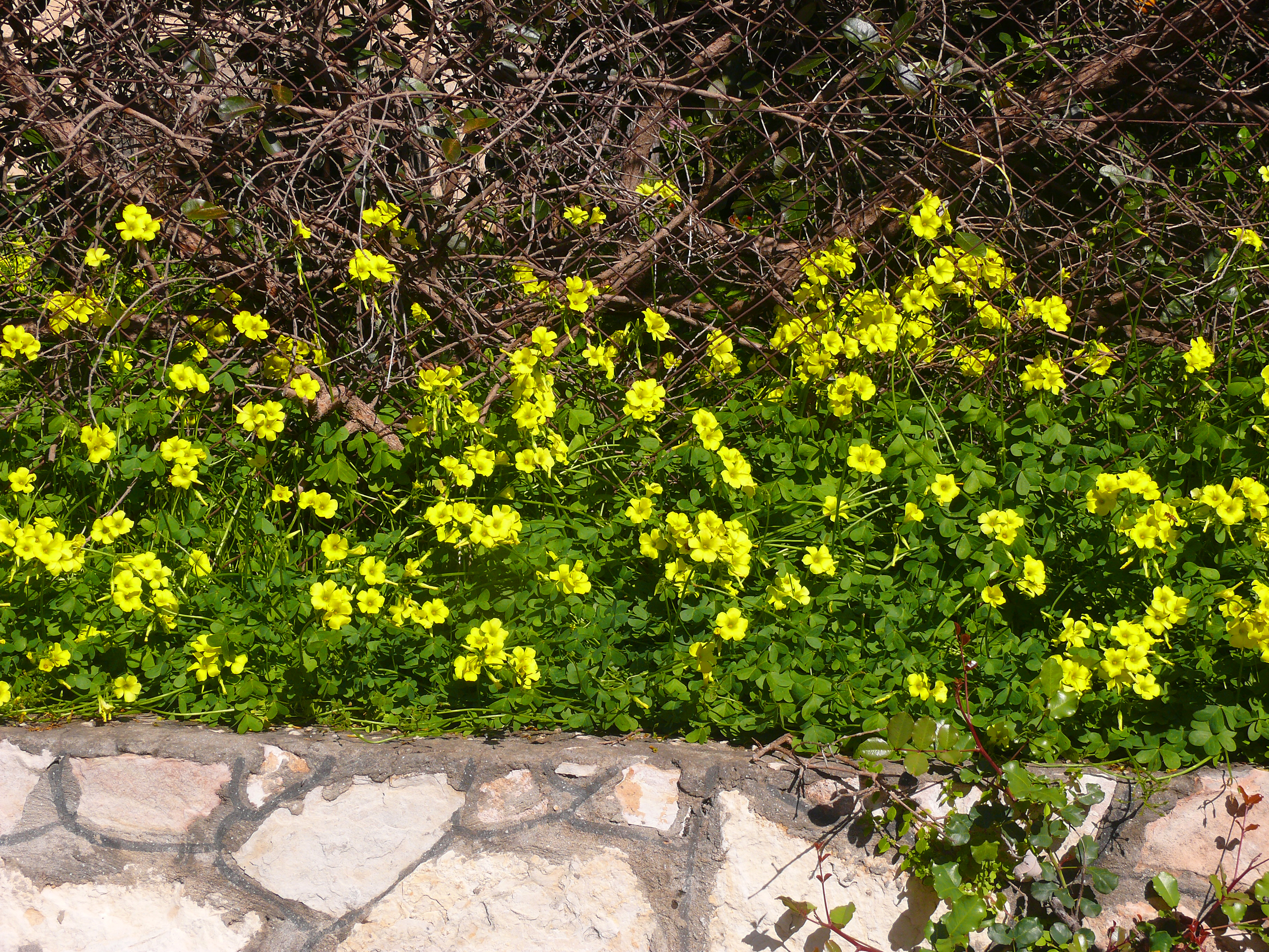 Oxalis pes-caprae at Rishon LeZion, Israel